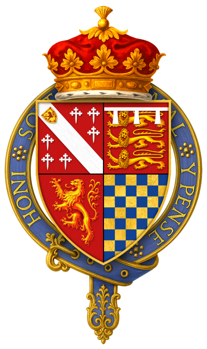 Garter encircled shield of arms of Henry Fitzalan-Howard, 15th Duke of Norfolk, KG, Earl Marshal, as displayed on his Order of the Garter stall plate in St. George's Chapel. In this instance the the 3rd and 4th quarters are reversed from the usual quarterings of the Dukes of Norfolk (1. Howard, 2. Mowbray, 3. Warren, 4. Fitzalan) placing Fitzalan in the 3rd and Warren in the 4th.